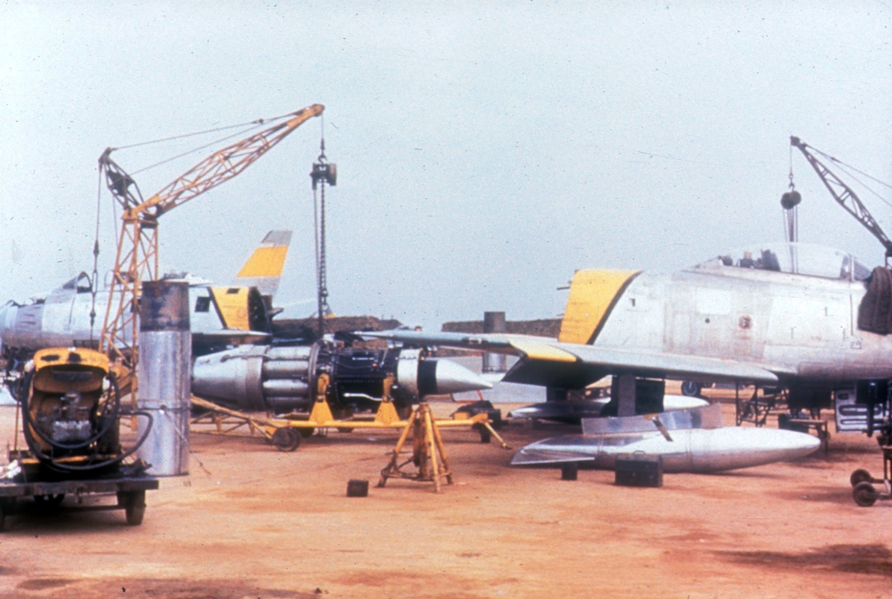 Engine change of a General Electric J47-GE-13 turbojet on a U.S. Air Force North American F-86E Sabre from the 4th Fighter Group at Kimpo Air Base, Korea, in 1952.